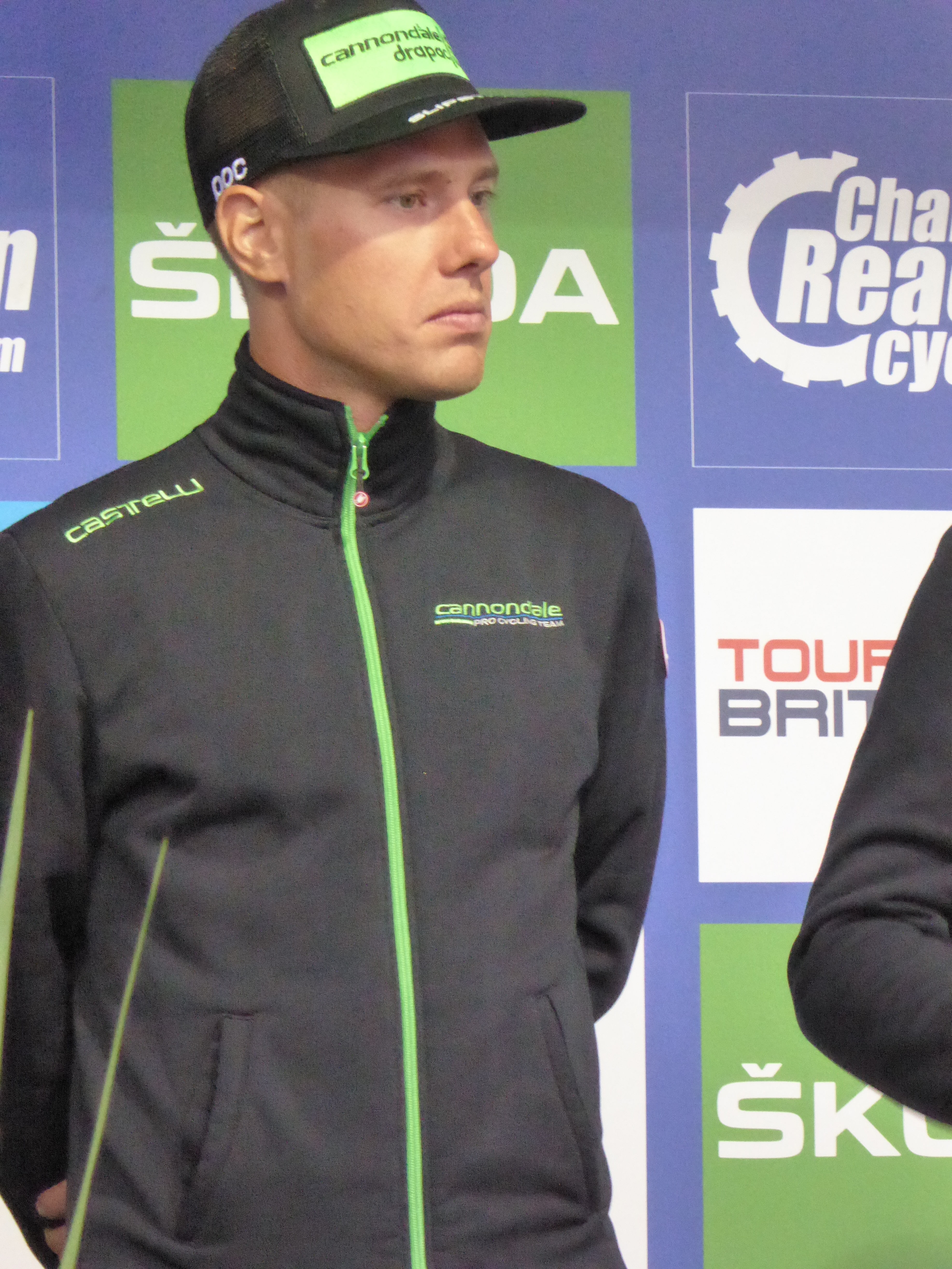 Sebastian Langeveld (Cannondale-Drapac), pictured at the 2016 Tour of Britain team presentation in Glasgow on 3 September 2016.